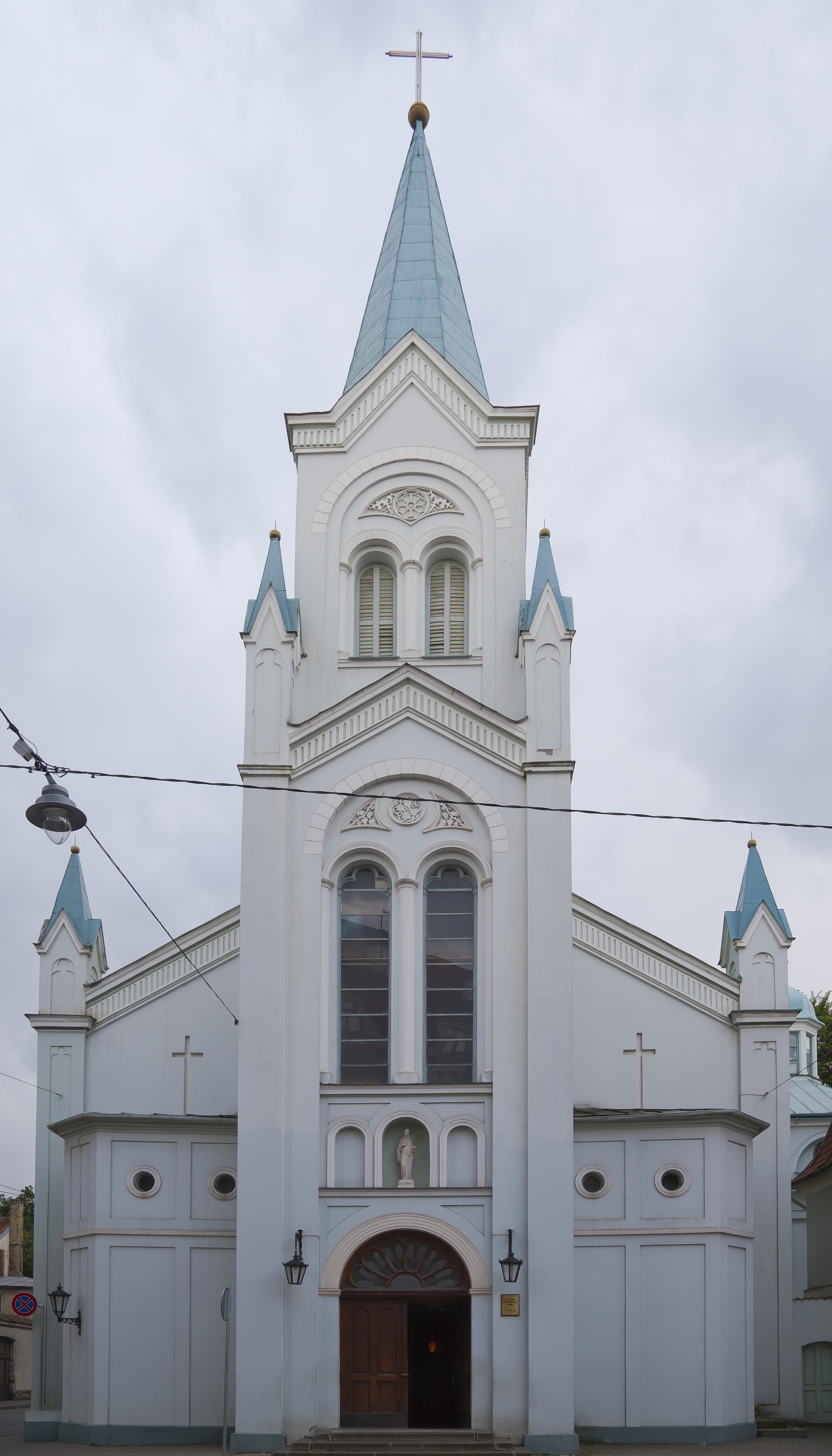 Church of Our Lady of Sorrows, Riga, Latvia